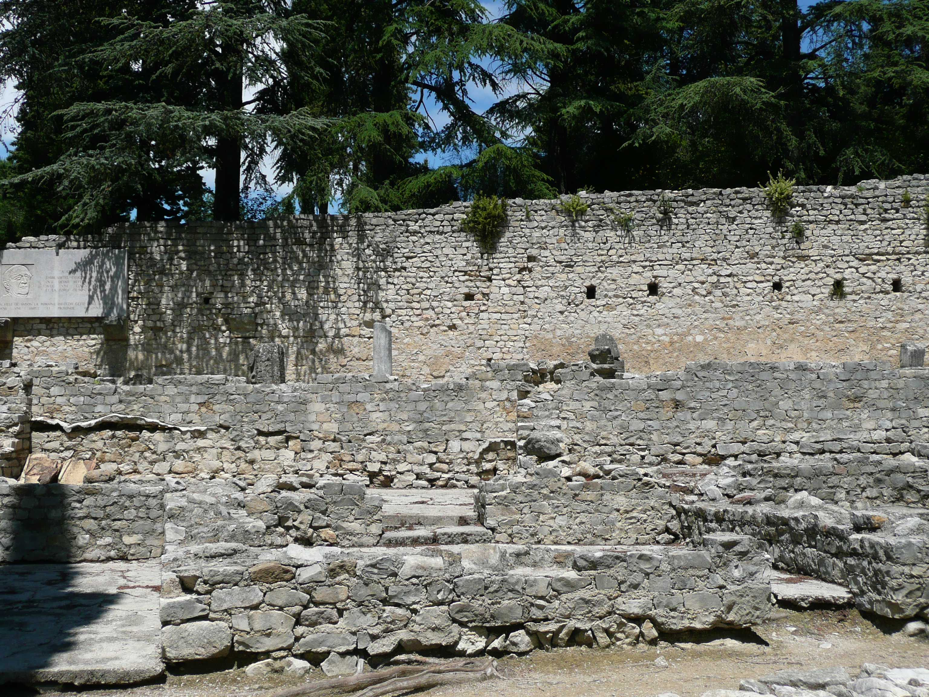 Archaeological site of Puymin